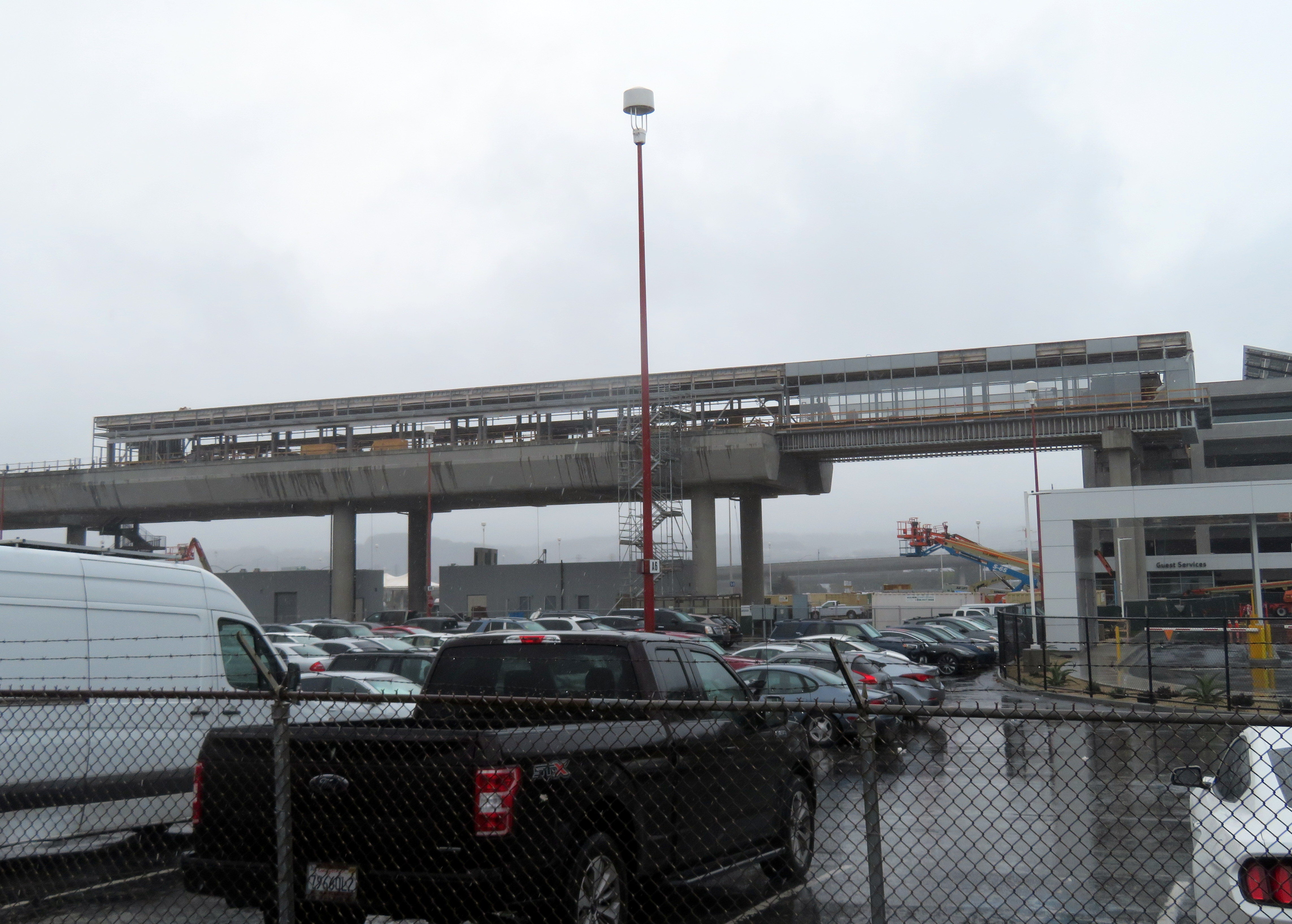 Lot DD station under construction in March 2020